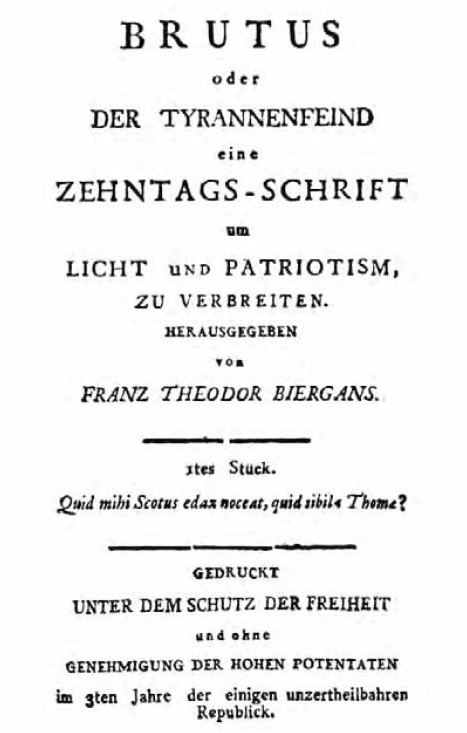 Titel page of the book "Brutus oder der Tyrannenfeind - eine Zehntags-Schrift um Licht und Patriotism zu verbreiten.", 1795